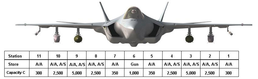 F-35 weapon layout